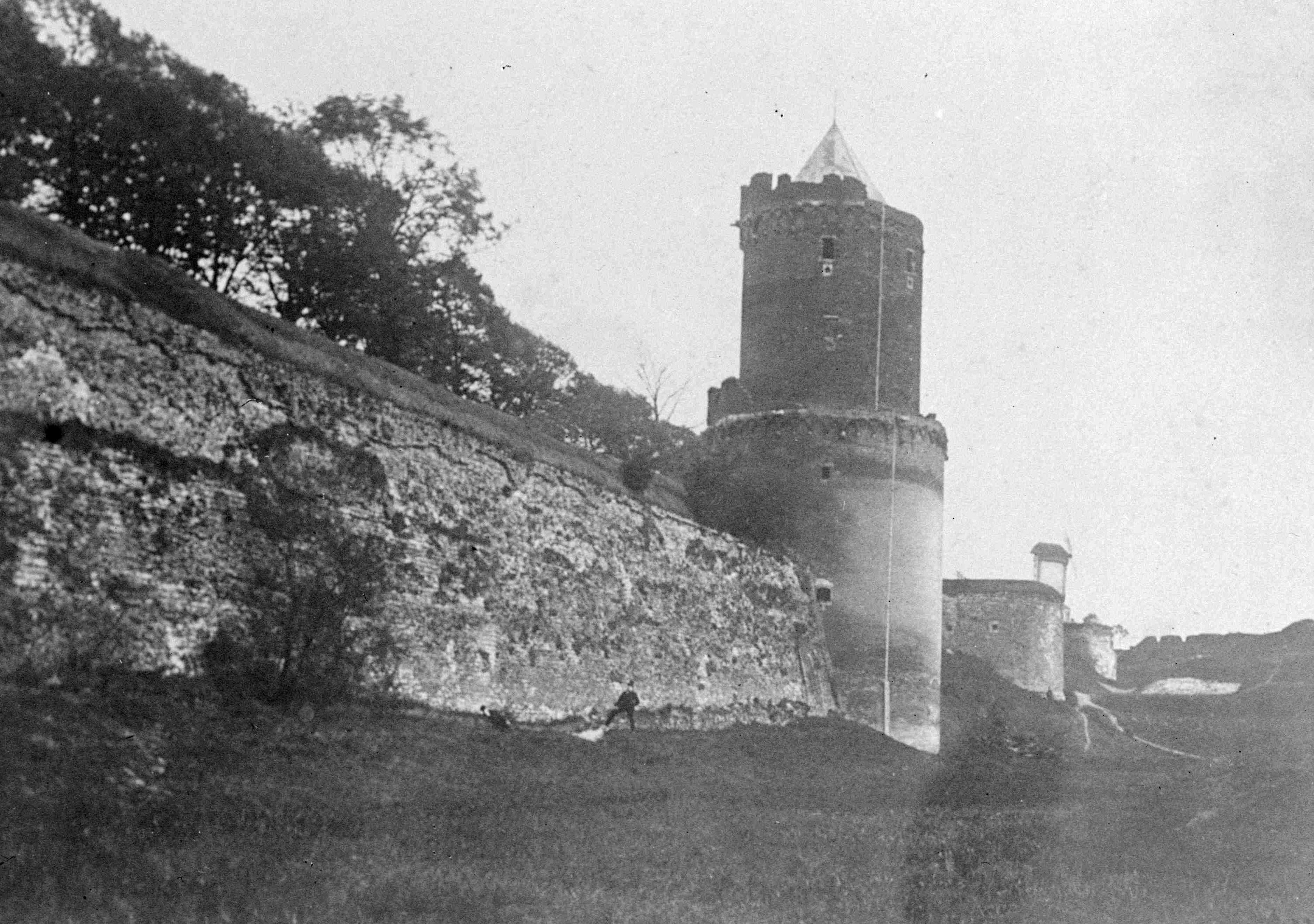 The city wall containing the Kruittoren and in the background the Roomse Voet and the PoSint Jacobsmill, popularly also called Sans Souci